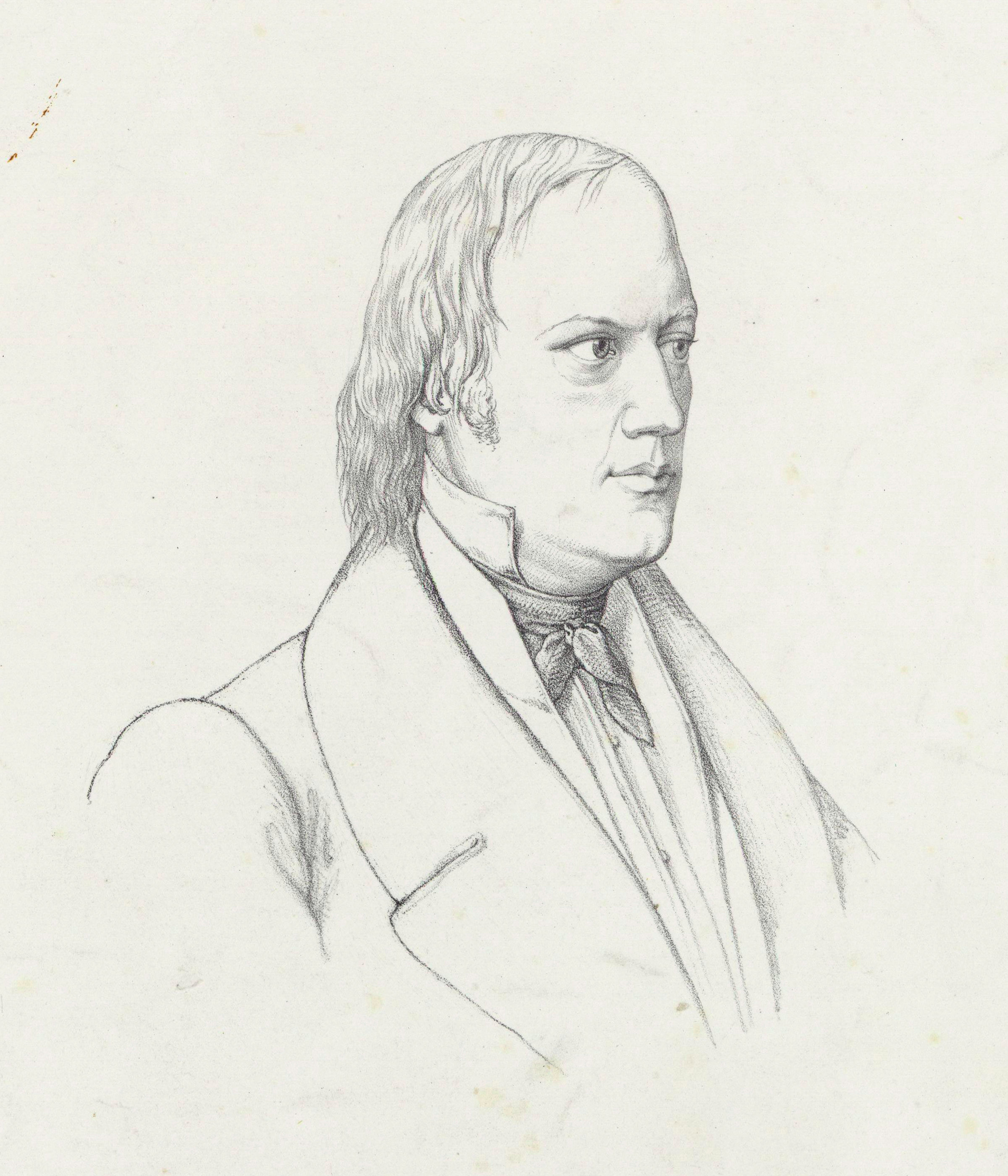 Depicted person: Johann Nepomuk Schelble